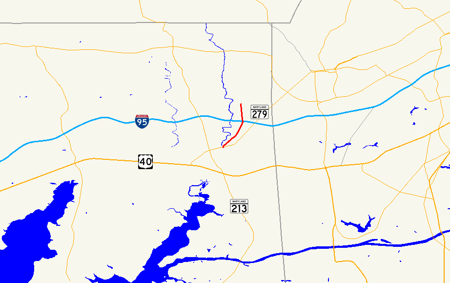 Map of Maryland Route 316